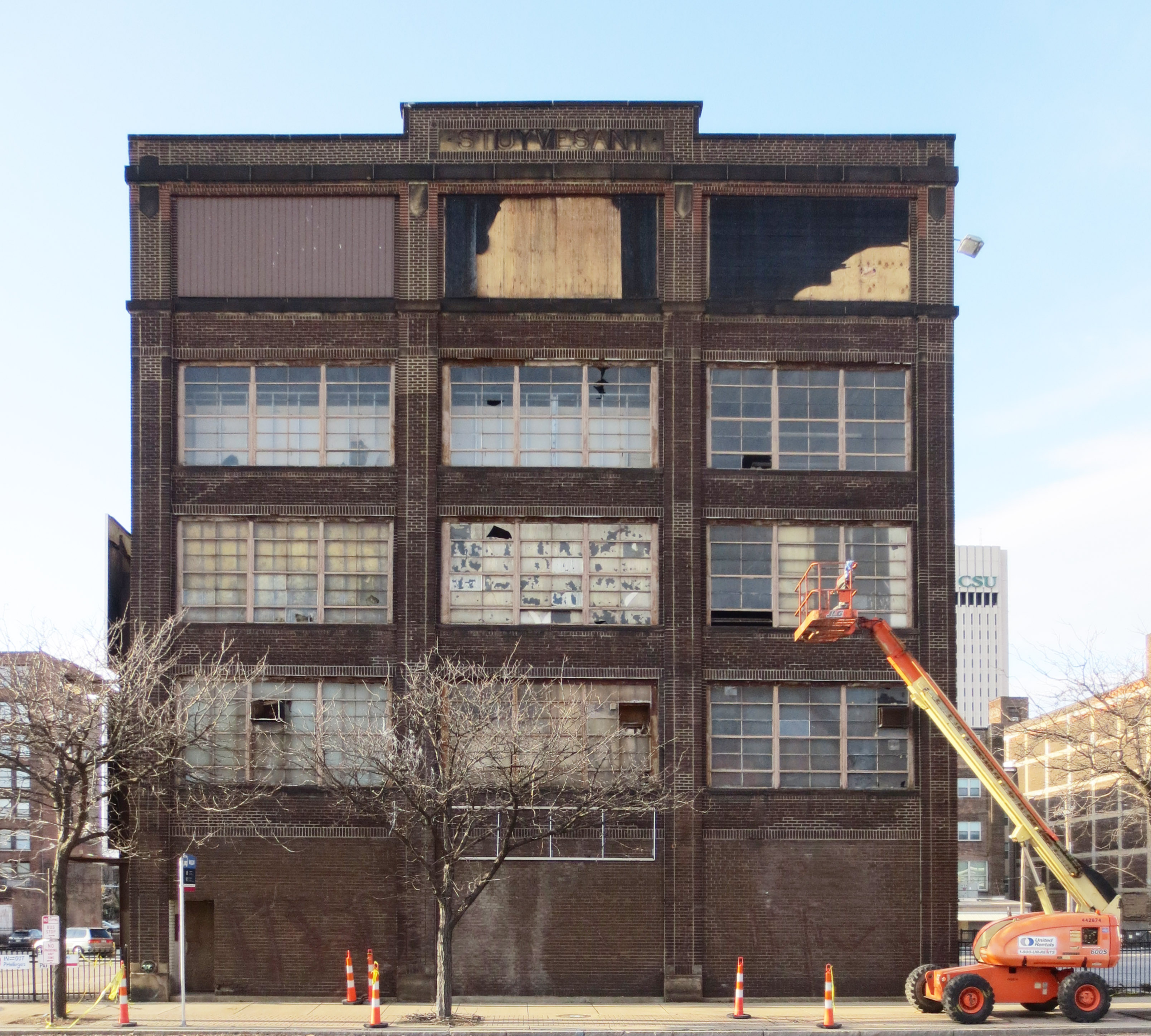 Front of the Stuyvesant Motor Company Building, located at 1937 Prospect Avenue in Cleveland, Ohio, United States. Built in 1917, it is listed on the National Register of Historic Places.